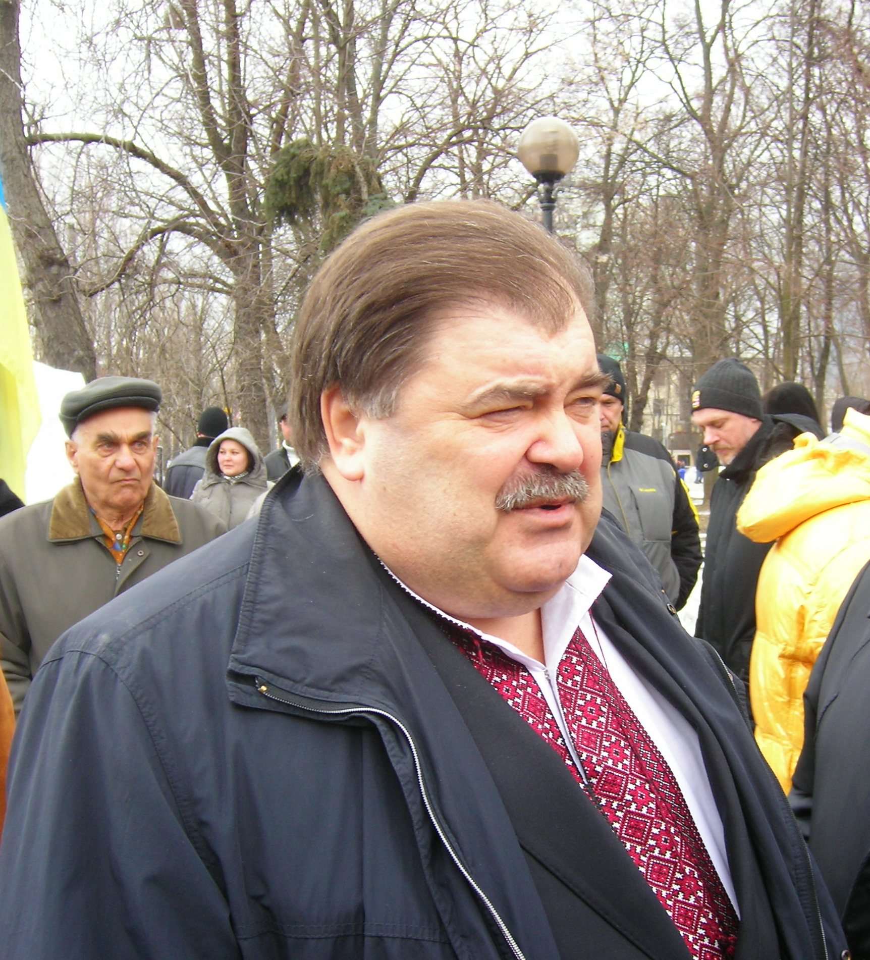 Volodymyr Dmytrovych Bondarenko - Ukrainian politician, People's Deputy of Ukraine